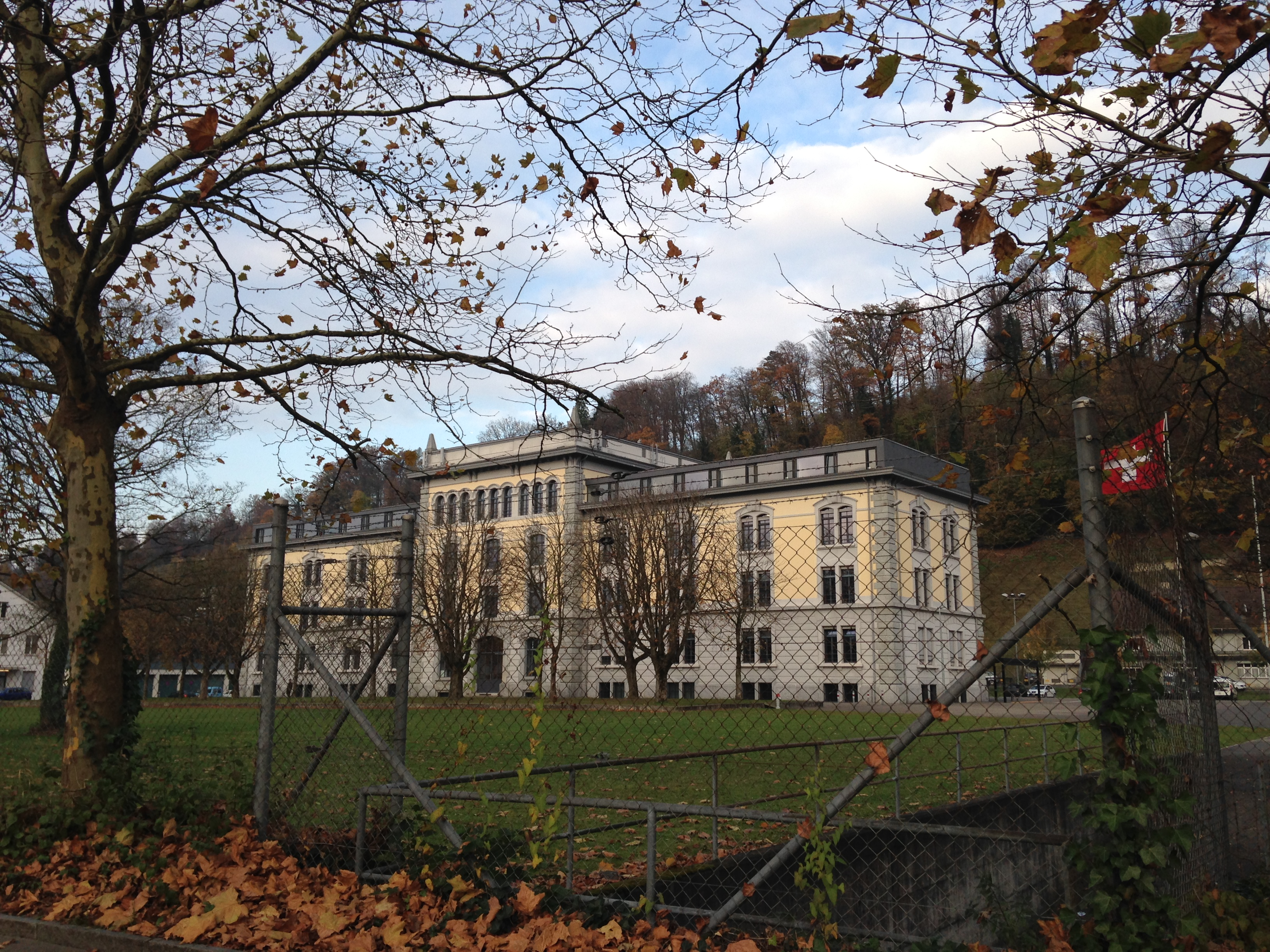 Military barracks in Brugg, Switzerland